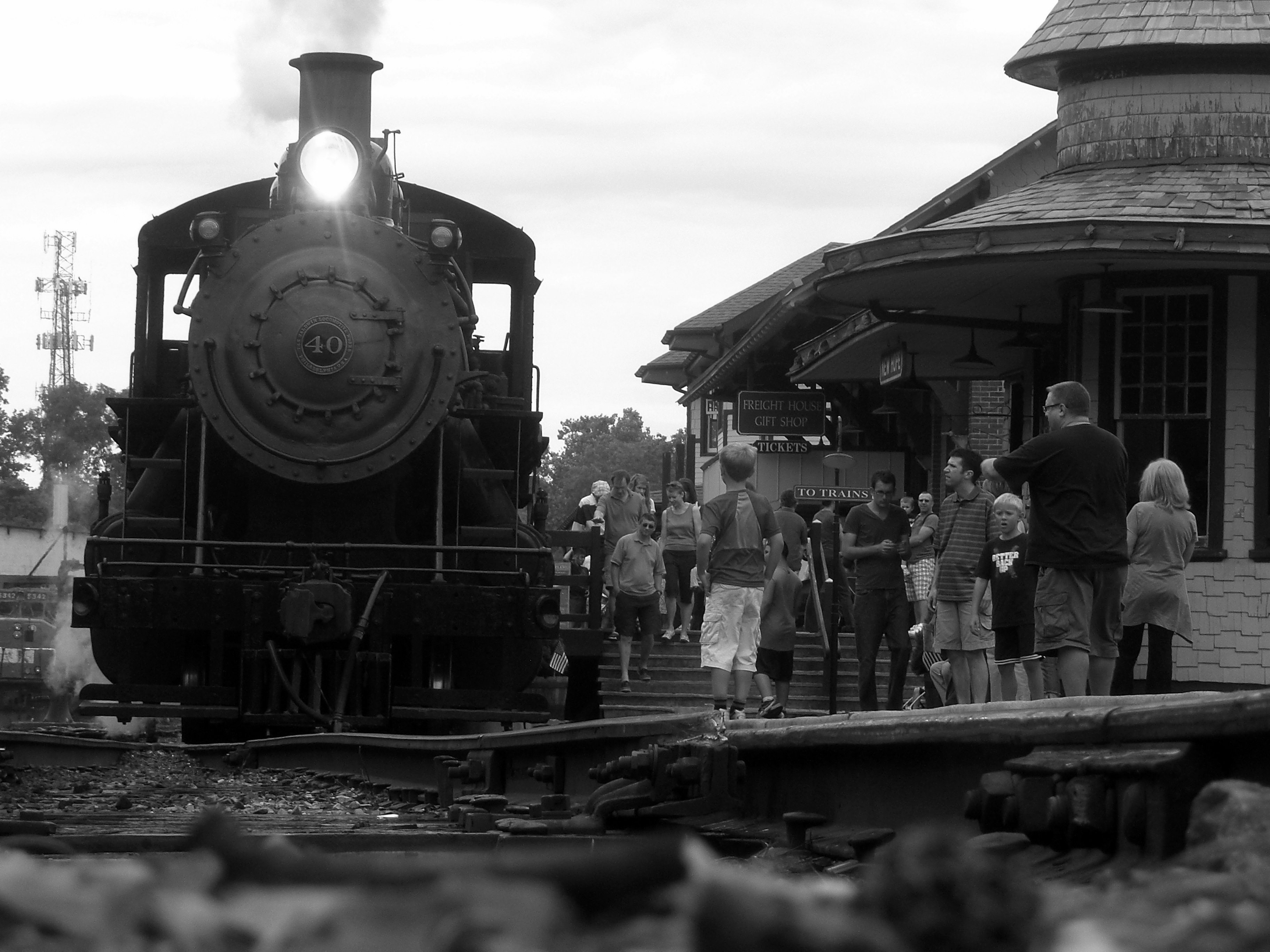 The New Hope and Ivyland Railroad